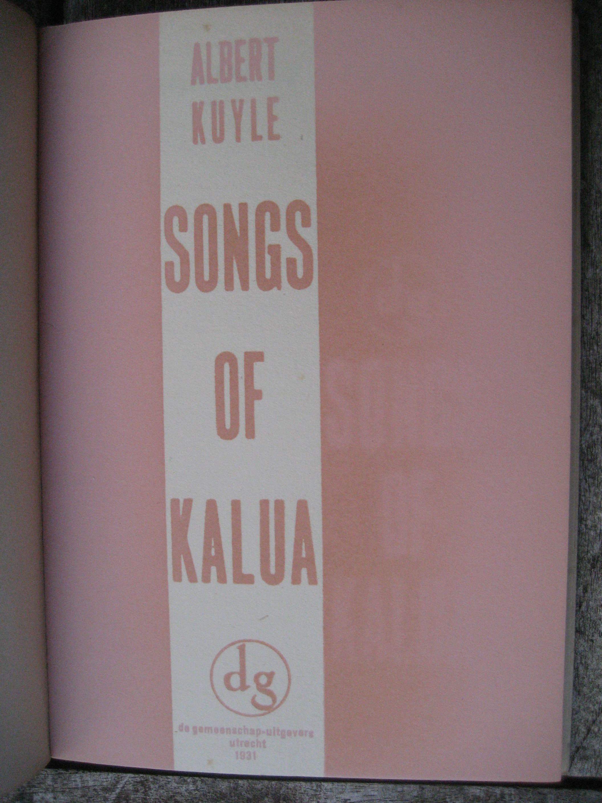 Albert Kuyle: Songs of Kalua (1927). Cover design: Andries Oosterbaan